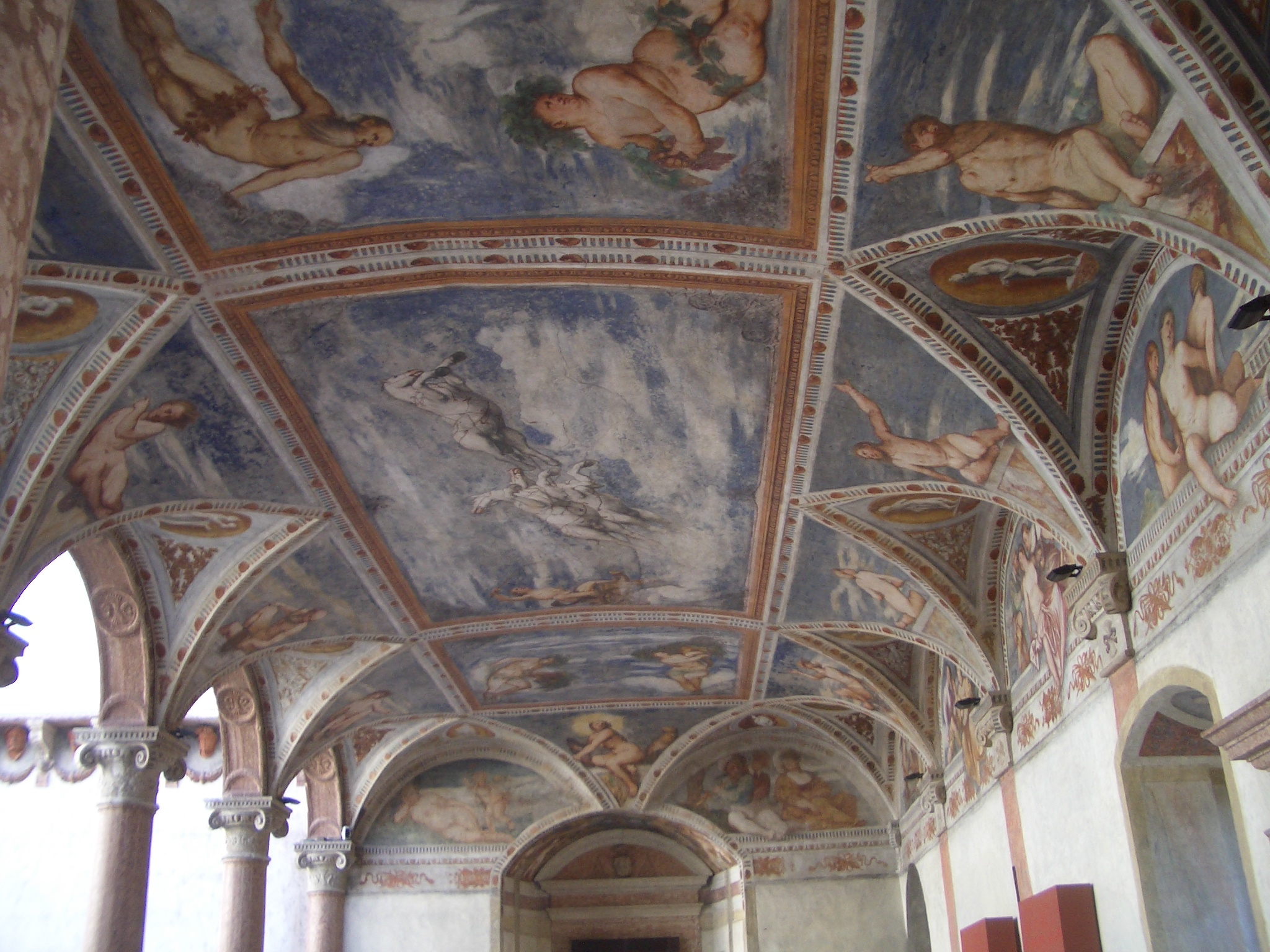 Romanino, View of the fresco painting decorating the Loggia vault, 1531-32, Castello del Buonconsiglio, Trento